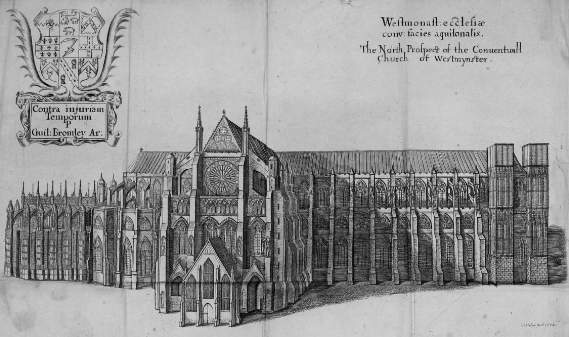 Westminster Abbey c1711